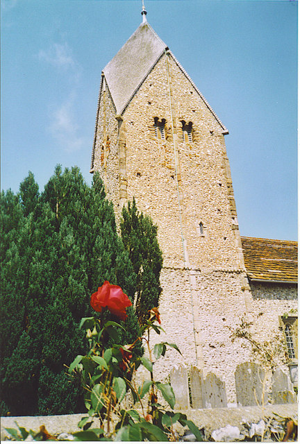 Church of England parish church of St Mary the Virgin, Sompting, West Sussex: early 11th-century Saxon west tower